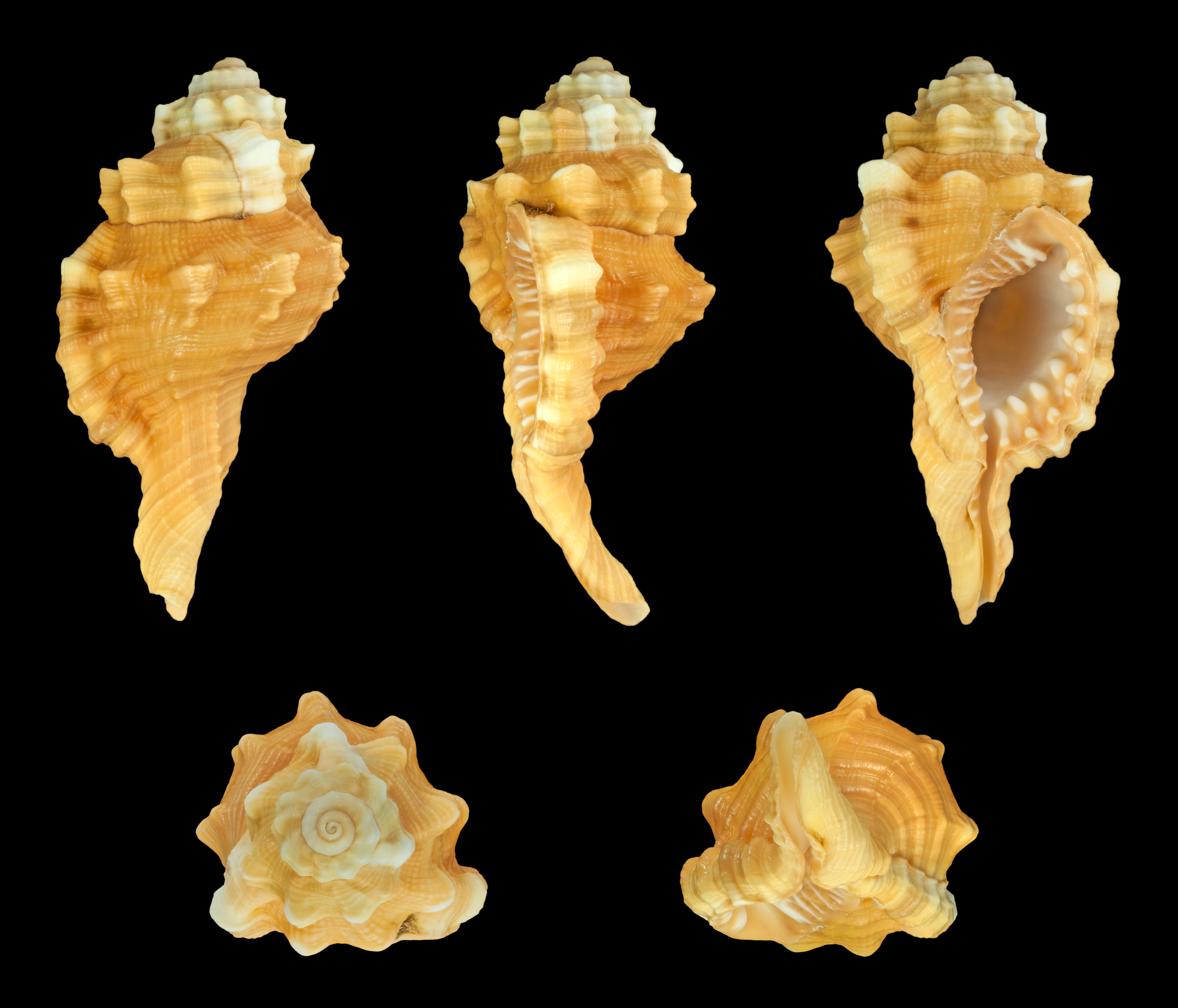 Ranularia pyrum (Linnaeus, 1758), Pear Triton; Length 7.9 cm; Originating from the Philippines; Shell of own collection, therefore not geocoded.